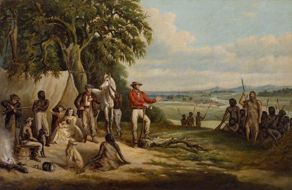 The first settlers discover Buckley, painting, oil on canvas, 62.5 x 95.5 cm, by Frederick William Woodhouse